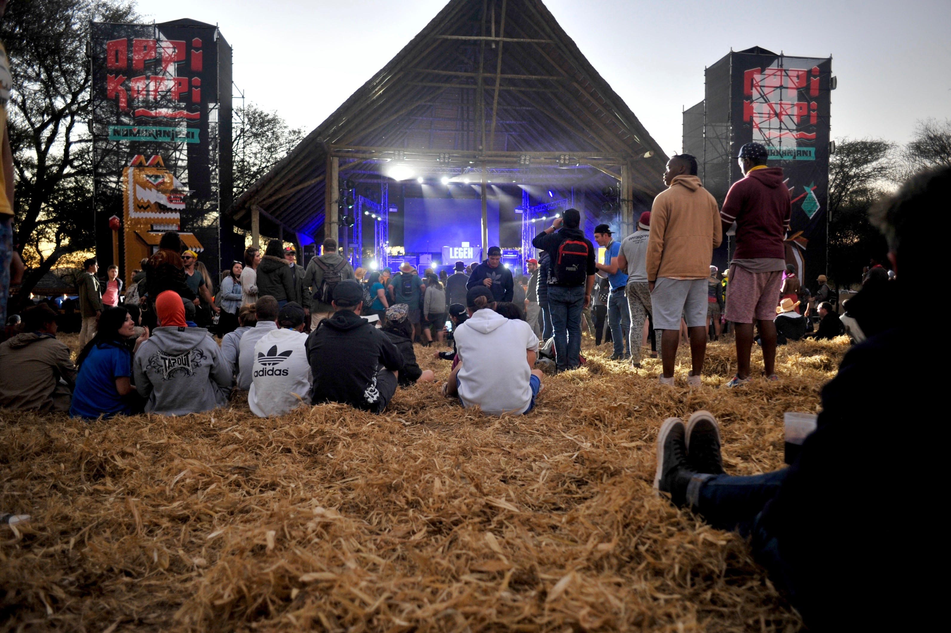 Waiting for the band at OppiKoppi Music Festival in South Africa This is an image with the theme "Play" from: South Africa